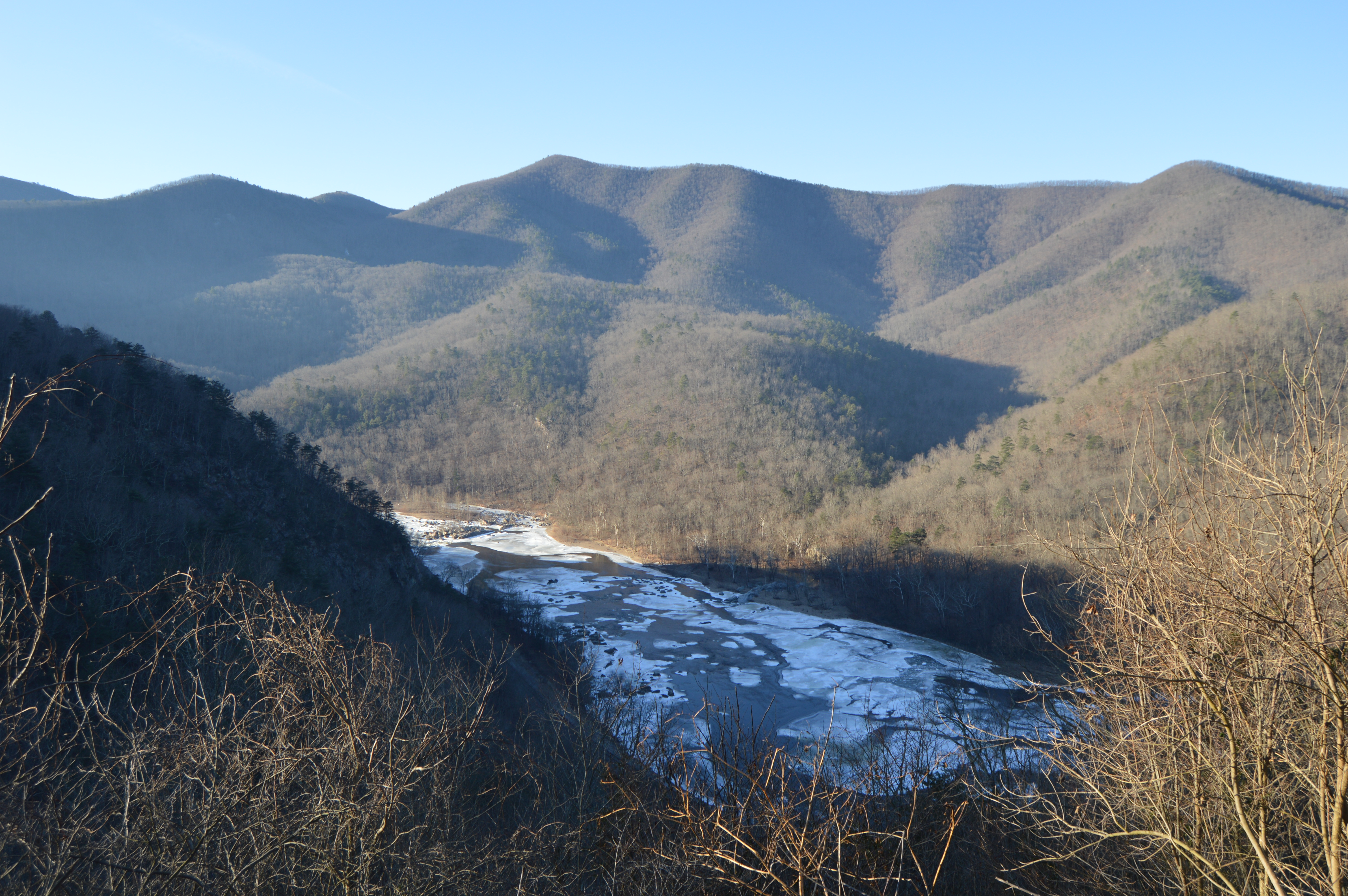 Scenery in the James River Gorge, seen from an overlook on U.S. Route 501/Virginia State Route 130 just south of the Amherst/Rockbridge County line. Land on the other side of the river is in Bedford County.